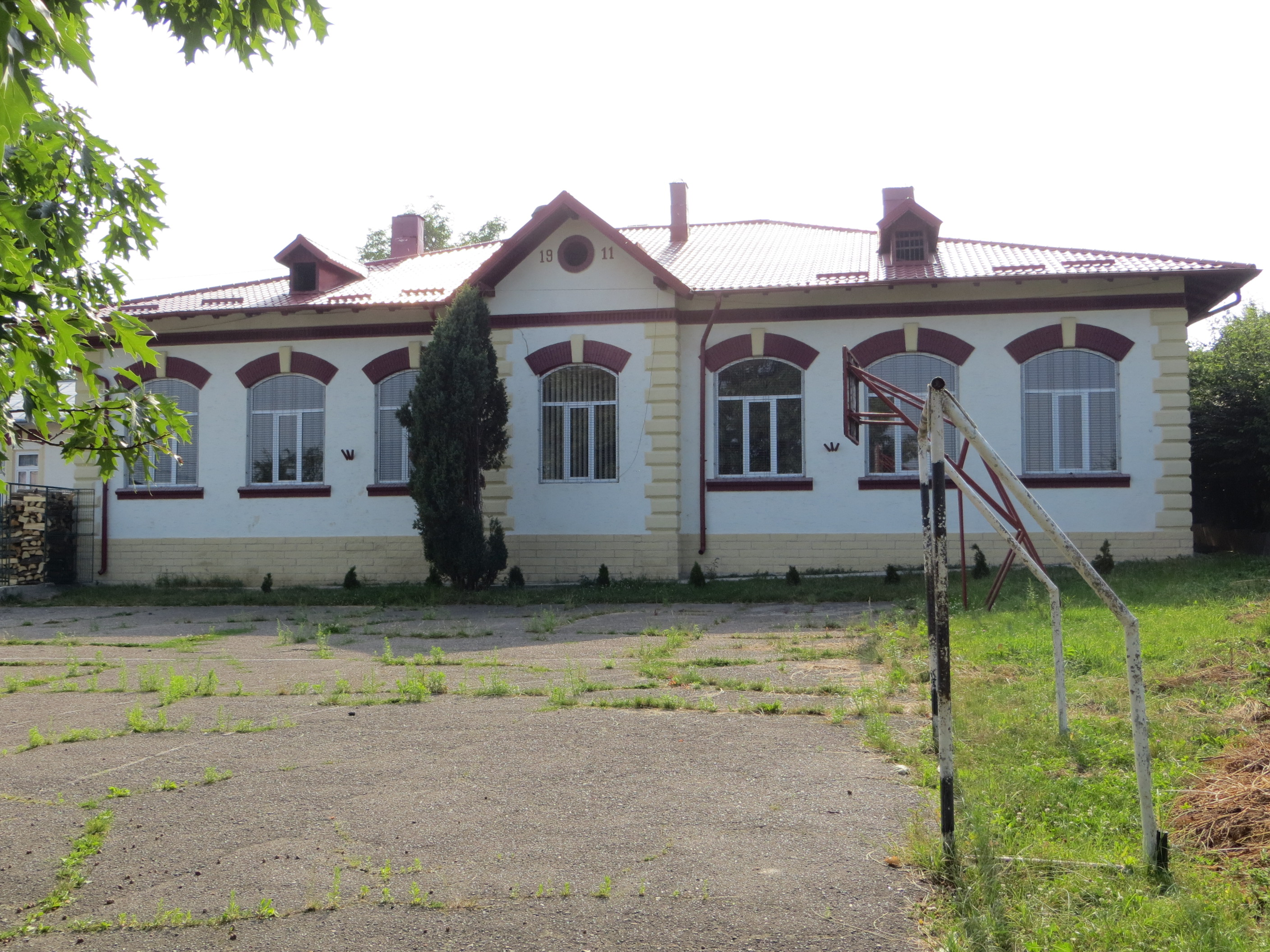 Secondary School no. 6 in Burdujeni, Suceava.